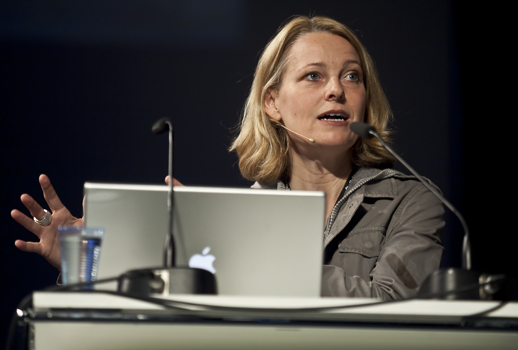 Miriam Meckel delivering a speech on the limits to human reason and estimating human capabilities at the Berlin re:publica 2010 congress, photographed by Daniel Seiffert